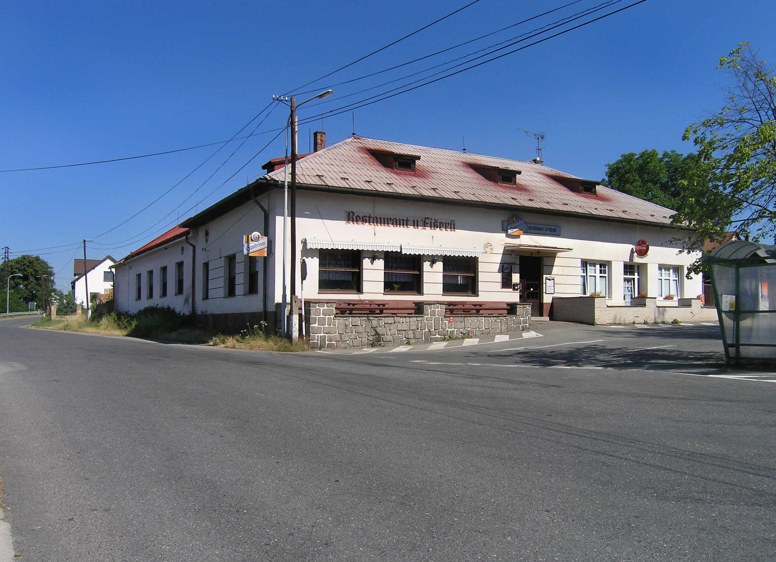 Restaurant in Hrdlořezy, Czech Republic